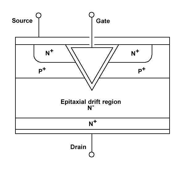 This is a diagram of the cross-section of VMOSFET.